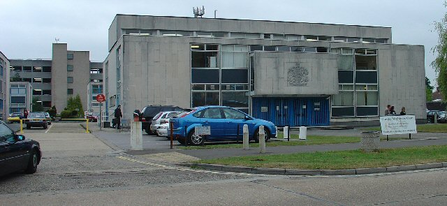 Crawley Magistrates' Court. Conveniently situated opposite the Police Station, in the centre of Crawley. This area has a block of civic buildings, including the Library and health service offices.